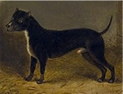 This is a picture of an Old English Terrier x Old English Bulldog cross (Bull and Terrier) from 1802 by Samuel Raven.